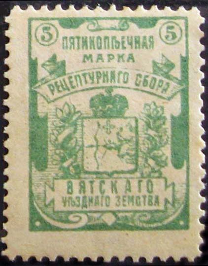 Vjatsky rural stamp of the prescription collecting